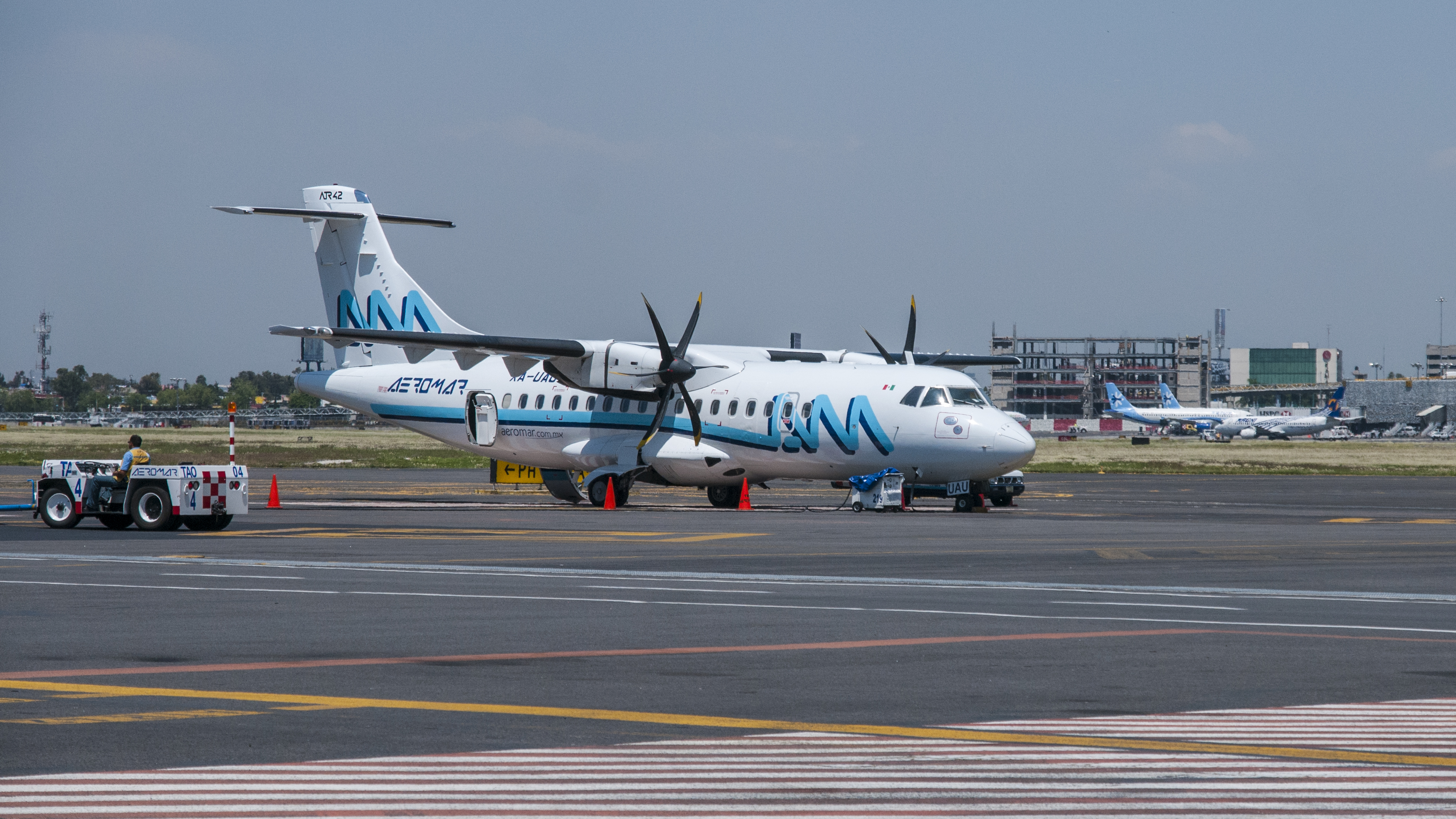 Aeromar is a mexican Airline. They use ATR planes for regional flights. An ATR 42 is dispplayed.